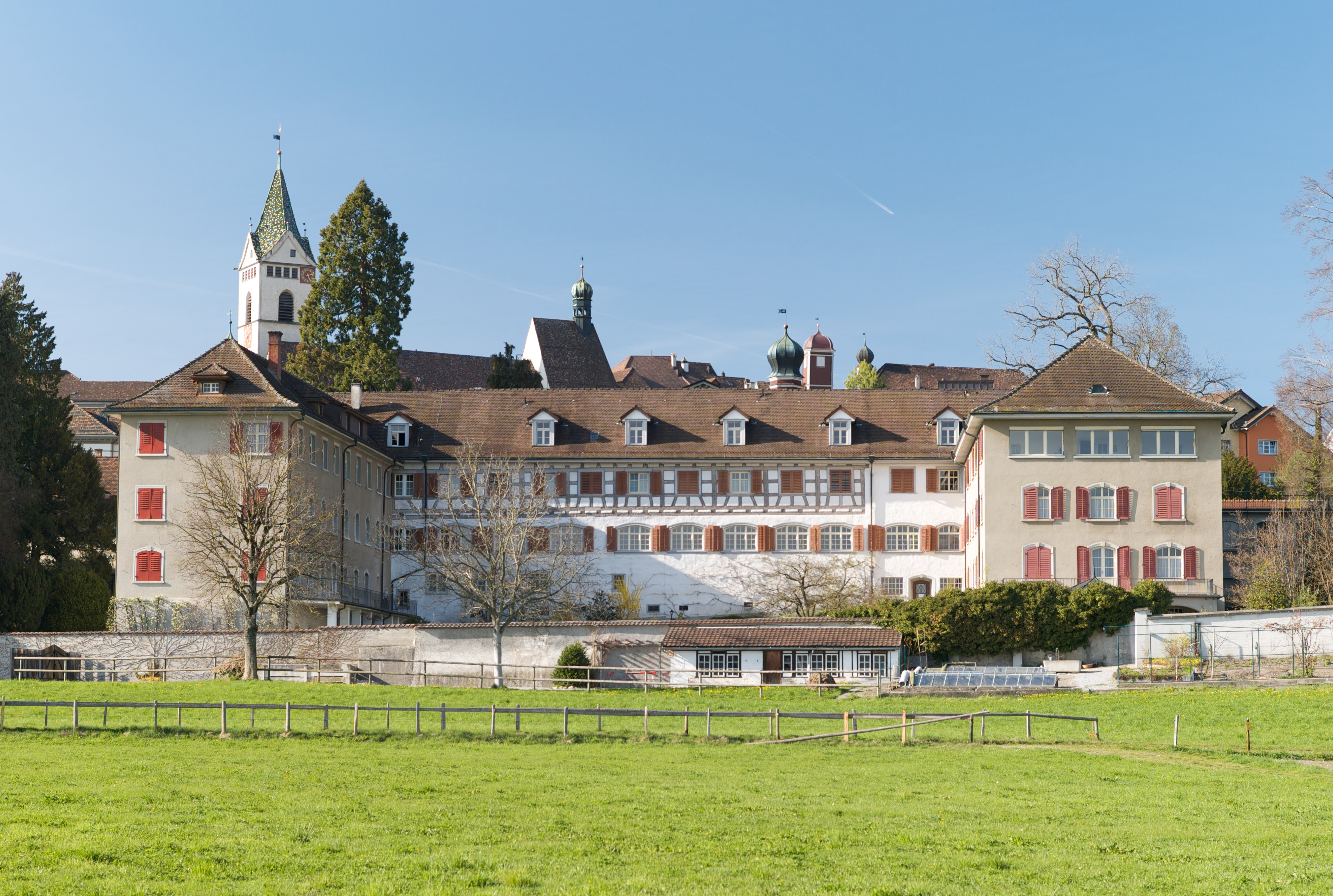 Dominican convent St. Katharina in Wil, SG, Switzerland